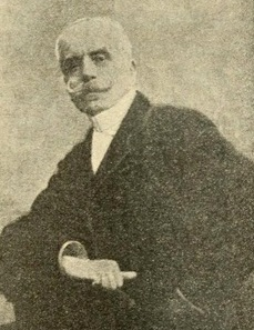 Portrait of the Italian writer Pompeo Gherardo Molmenti. In "Infanzia e giovinezza di illustri italiani contemporanei" by Onorato Roux (Firenze, 1908)